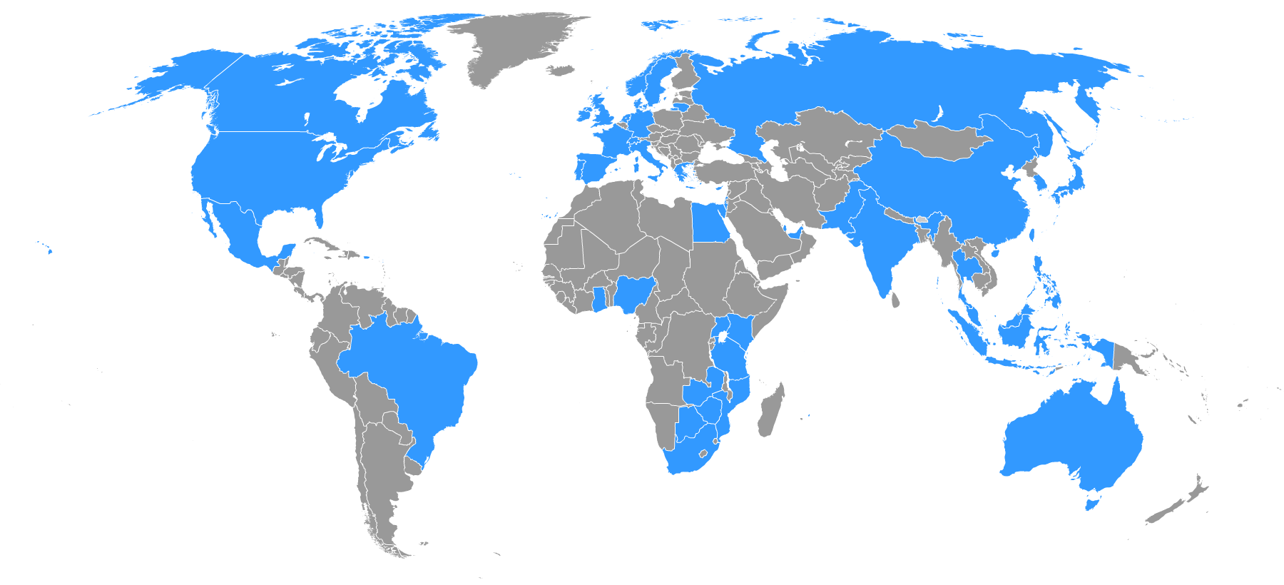 Map indicates Barclay's worldwide locations including: Retail banking, Investment banking, Wealth Management, Barclaycard services, Business banking, Corporate banking and Premier banking.